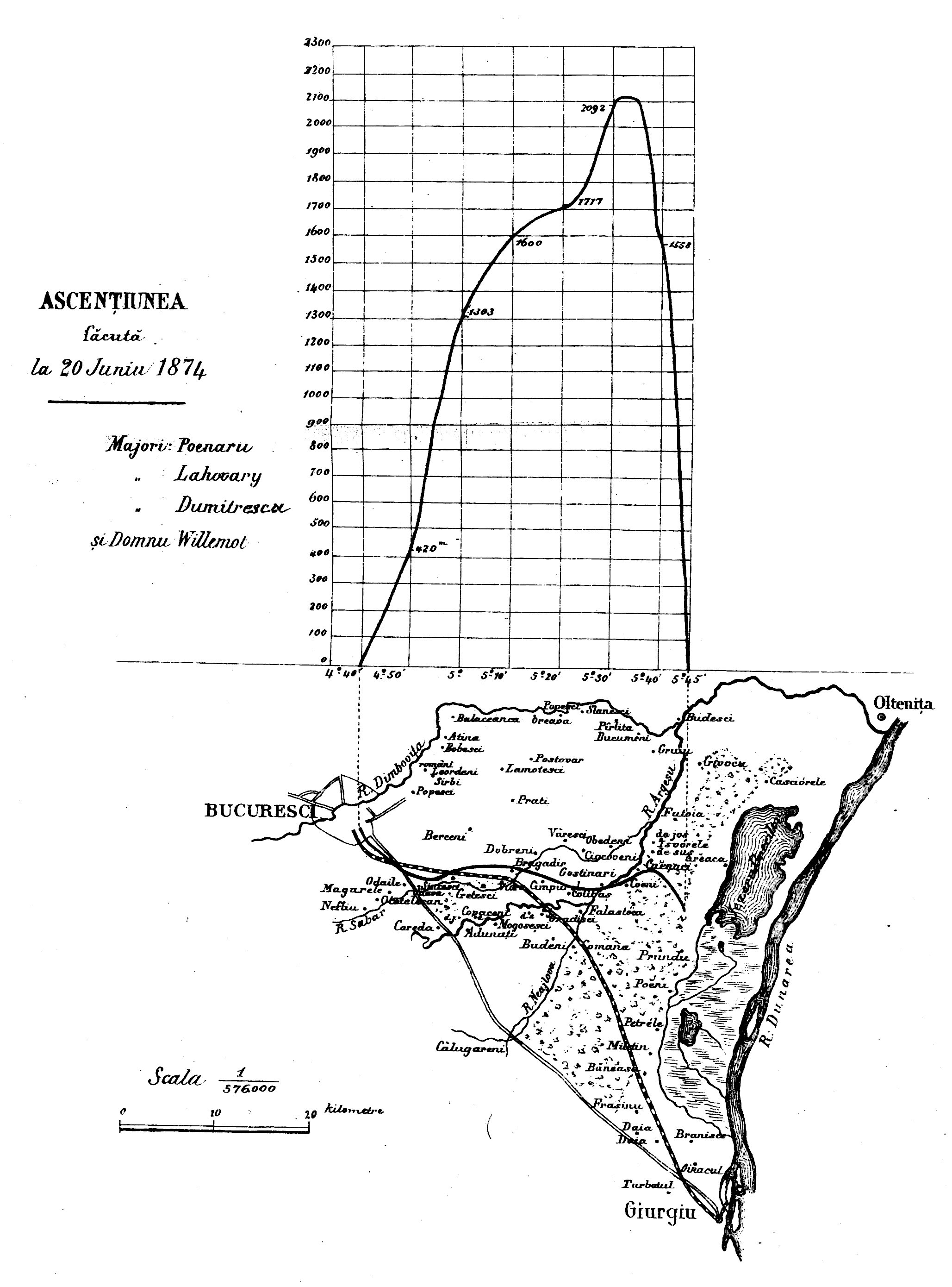 Map of the journey of «Mihai Bravul» balloon